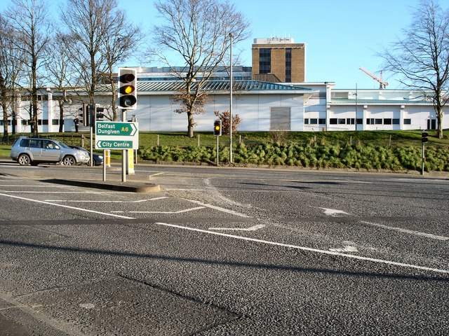 Traffic lights at Altnagelvin junction